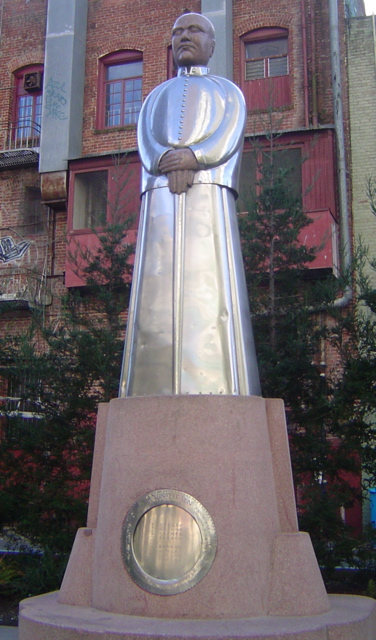 1937 sculpture by Benny Bufano